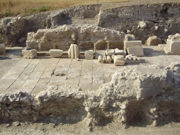 Tigrankert (Artsakh). Agdam Rayon / Askeran province, Republic of Mountainous Karabakh.